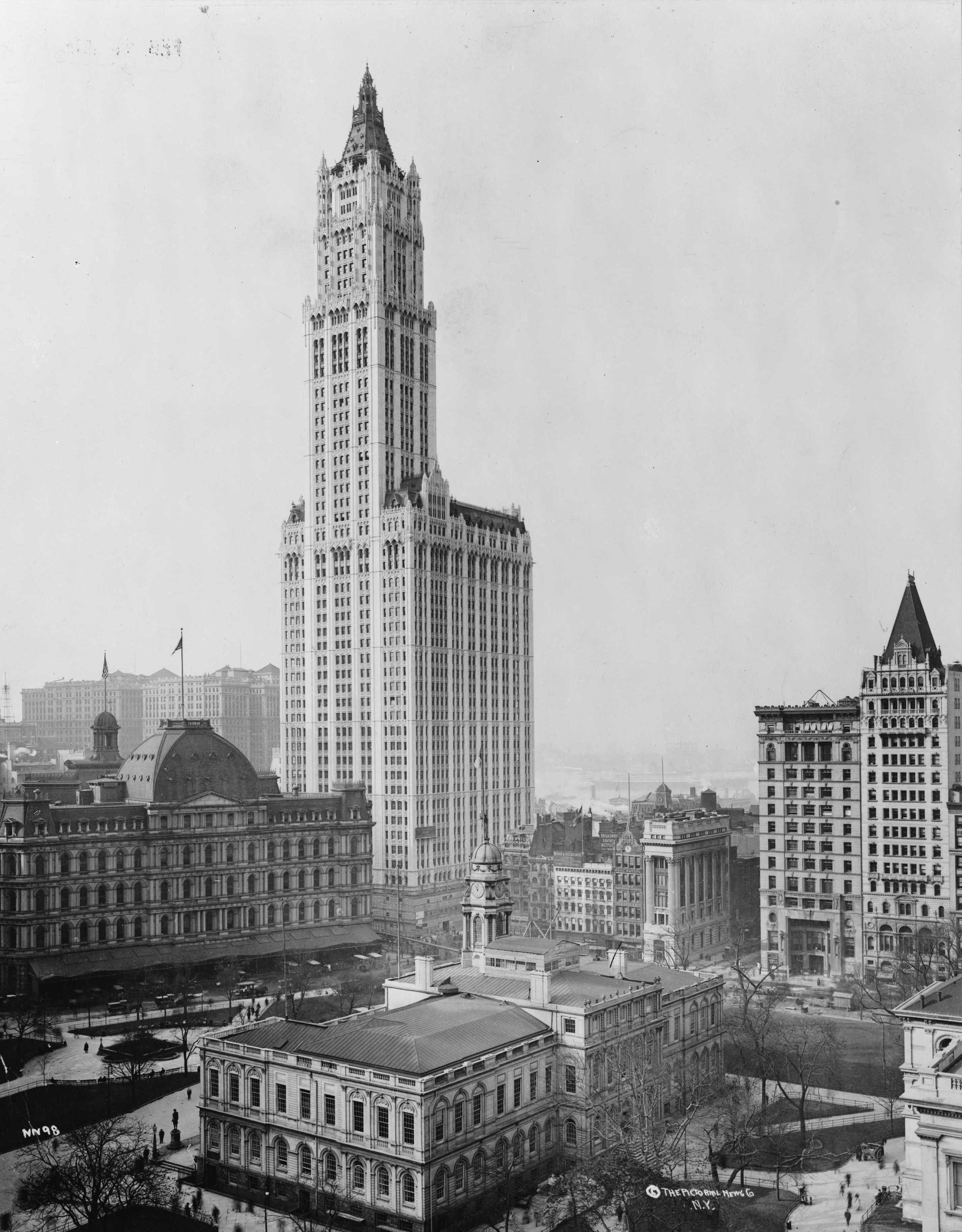 View of Woolworth Building and surrounding buildings, New York City.